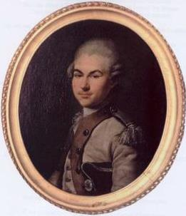 Donatien-Marie-Joseph de Vimeur, vicomte de Rochambeau